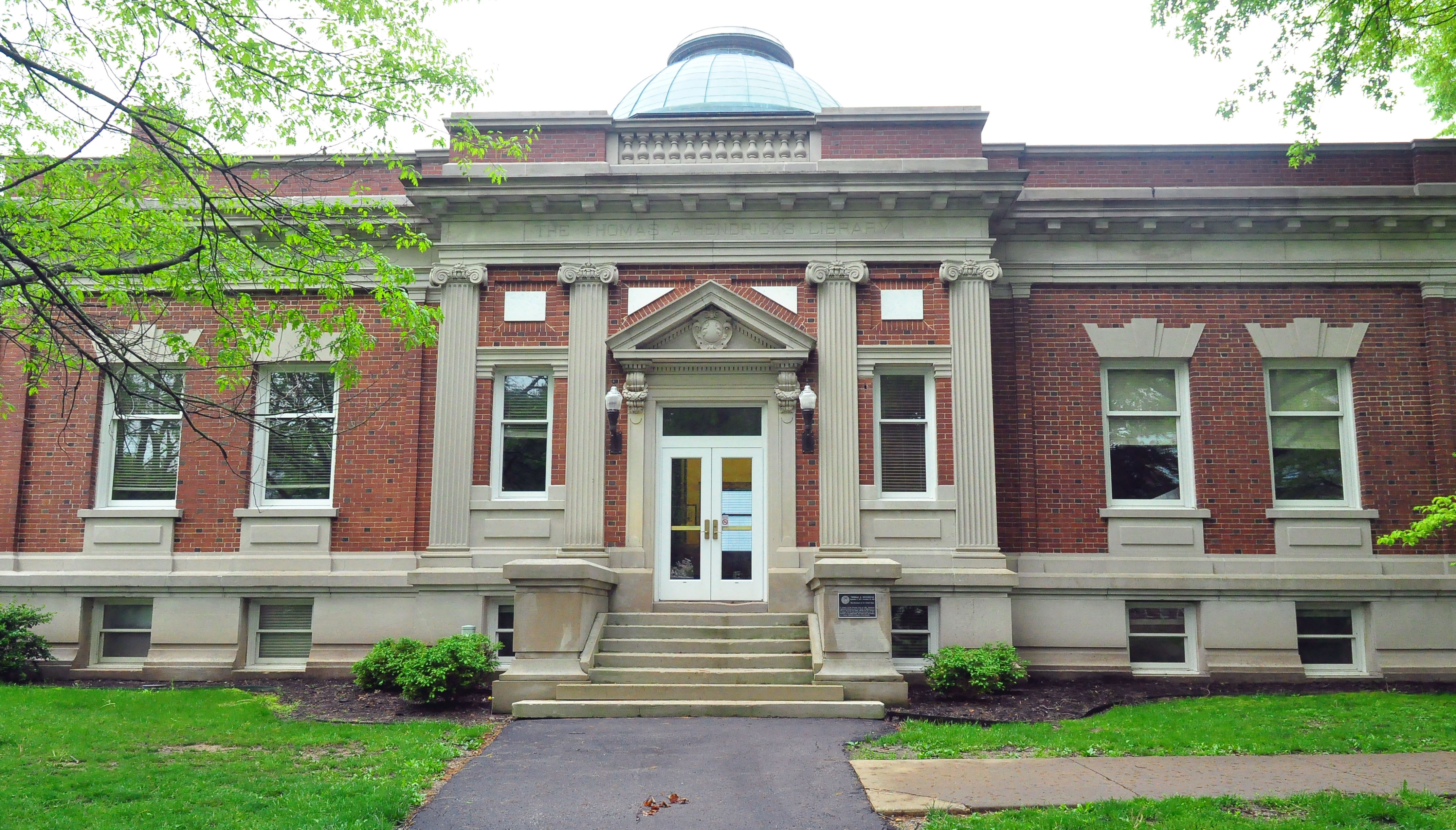 Photo from the front of Hendricks Hall, on Hanover College's campus.